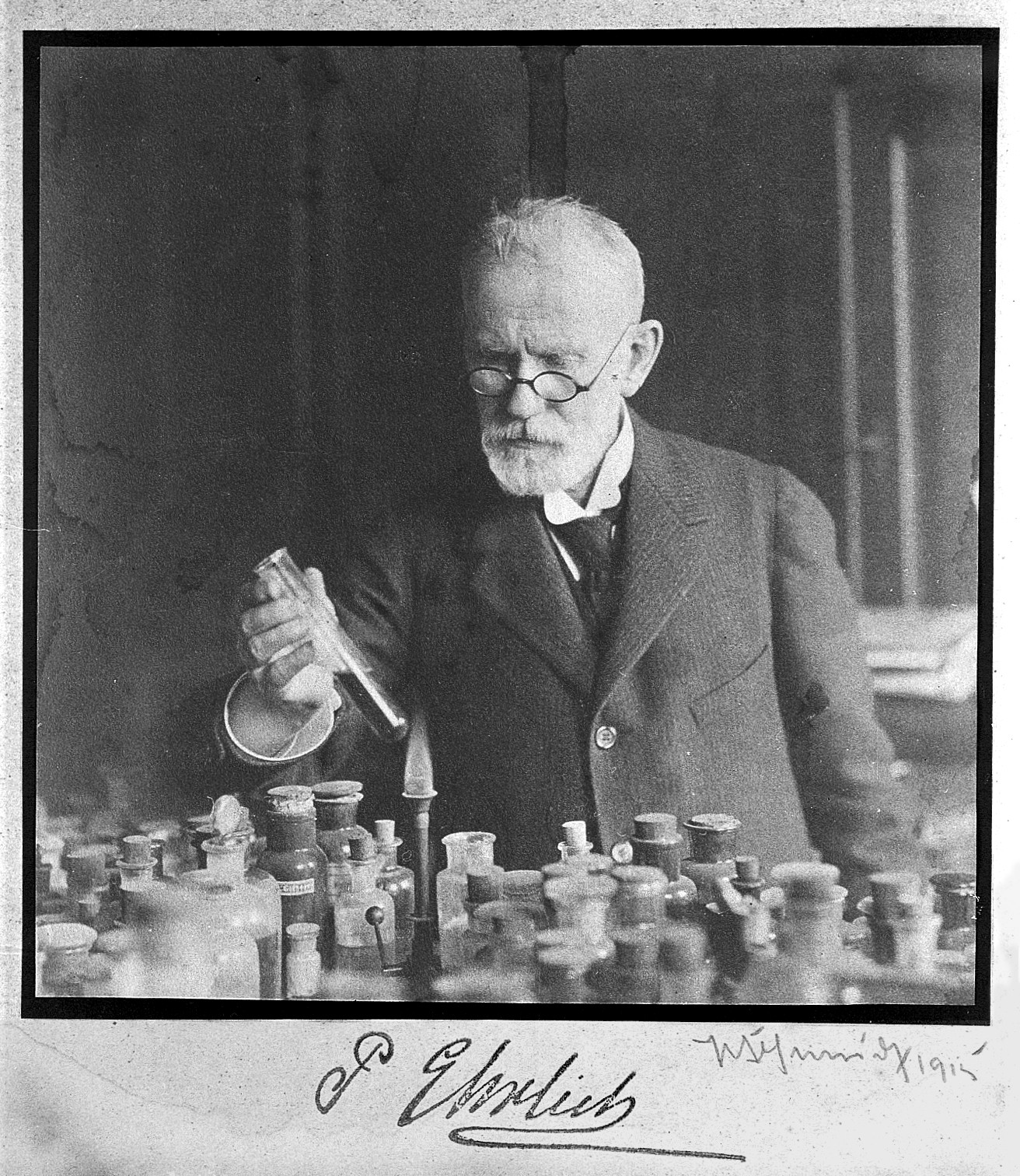 Paul Ehrlich. Photograph, 1915. Iconographic Collections Keywords: ehrlich, paul {1854-1915}; pho 14056; Portraits